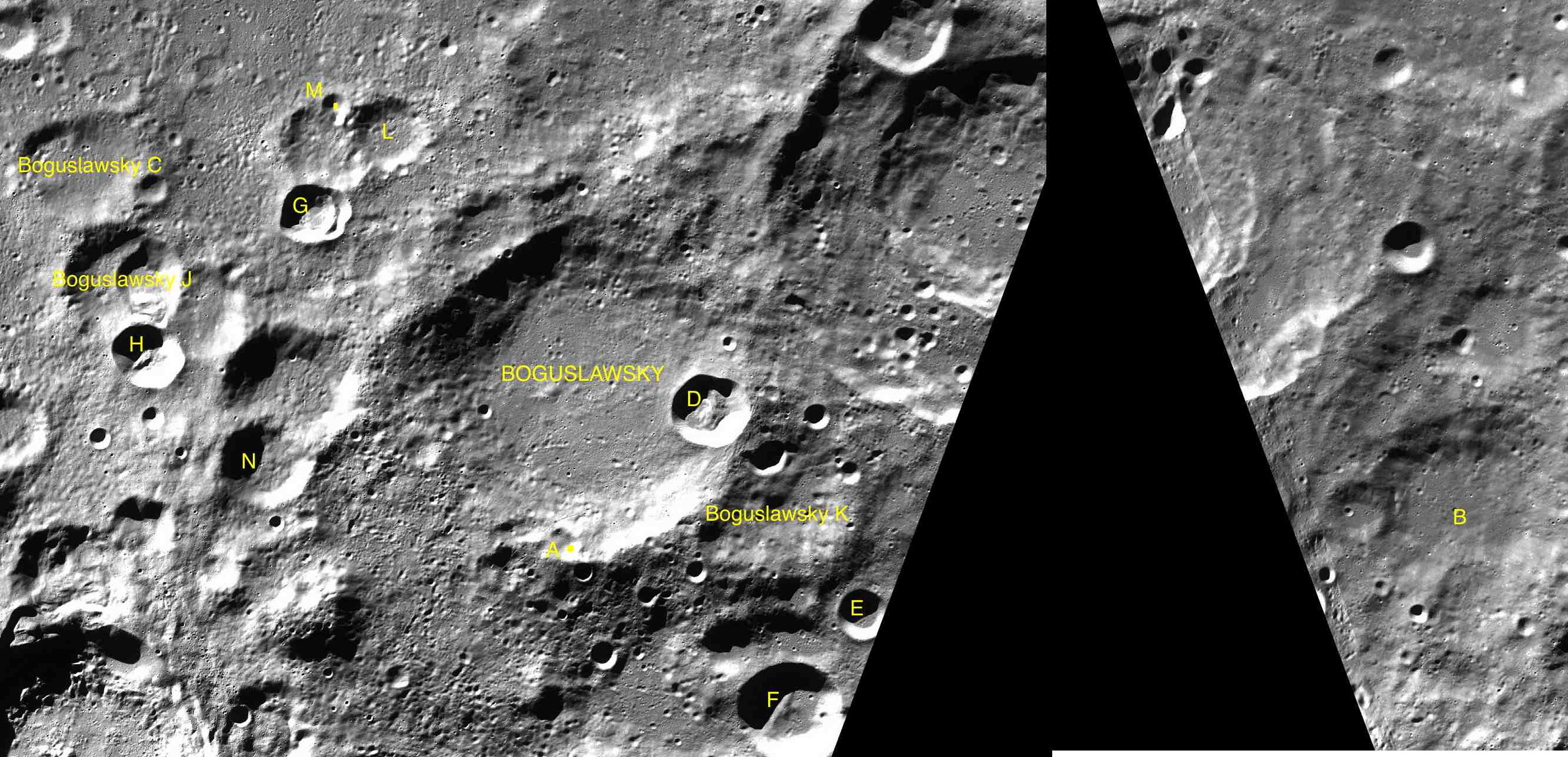 Parts of the charts LAC-138, LAC-139 used for the presentation